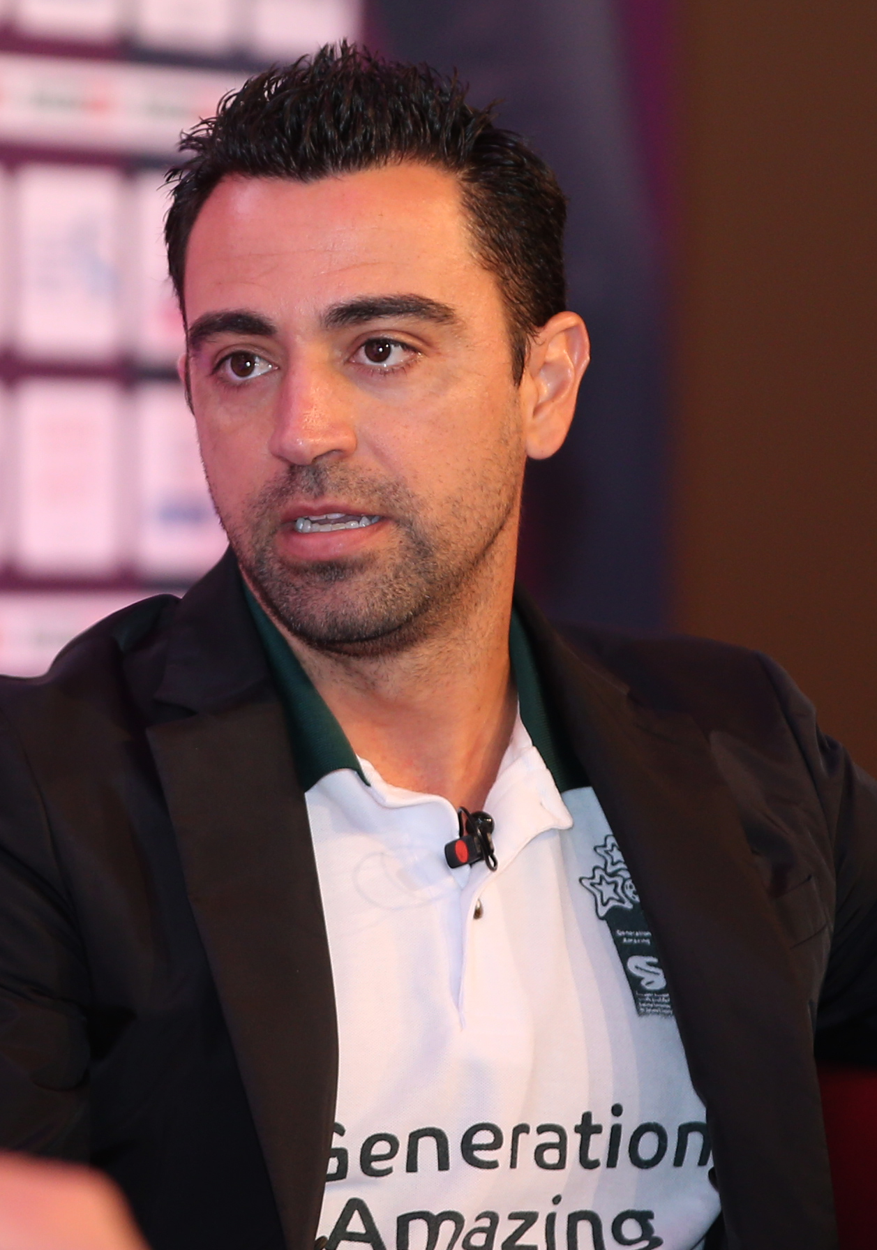 Xavi Hernandez at the 2016 Soccerex Asian Forum in Doha. Doha Stadium Plus/K Mohan